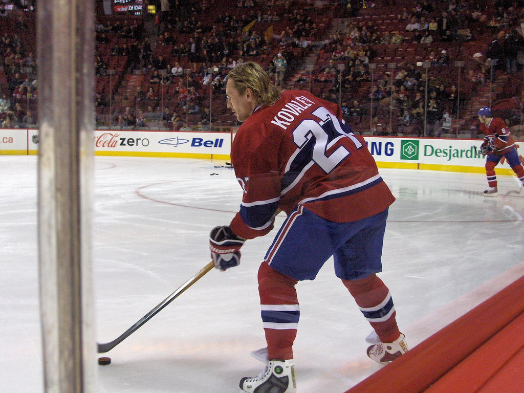 Alexei Kovalev